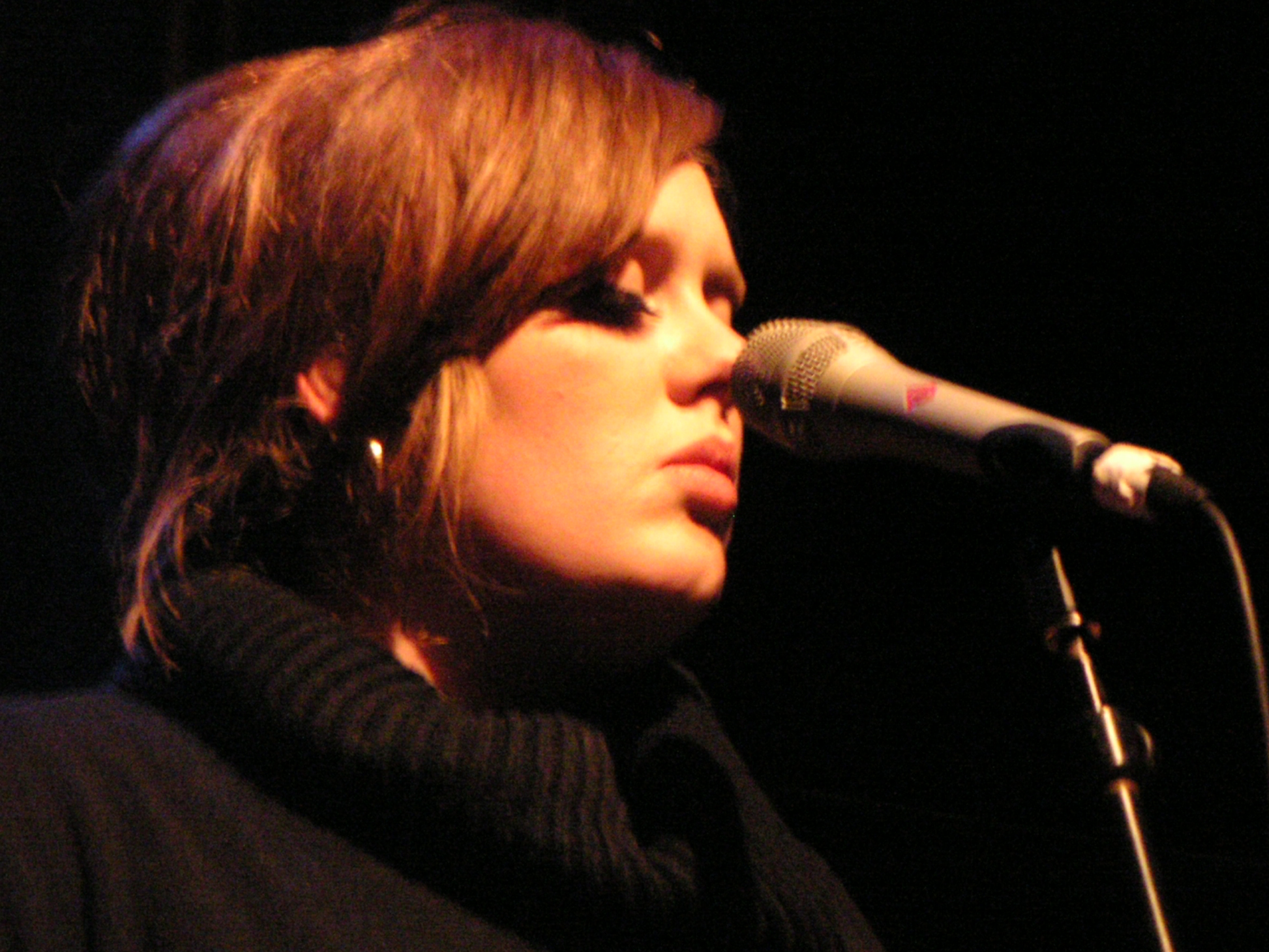 Adele